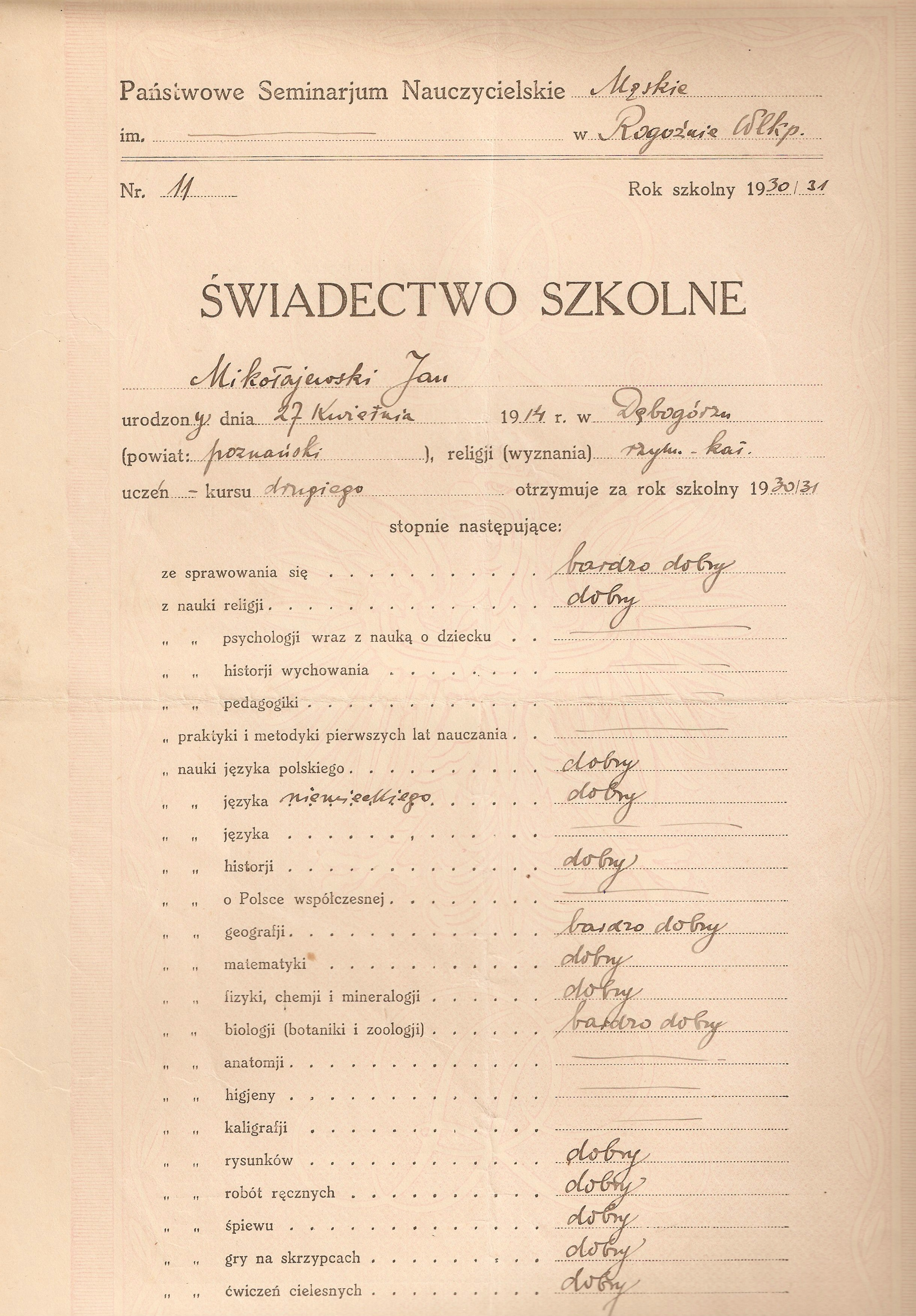 School certificate of Jan Mikołajewski